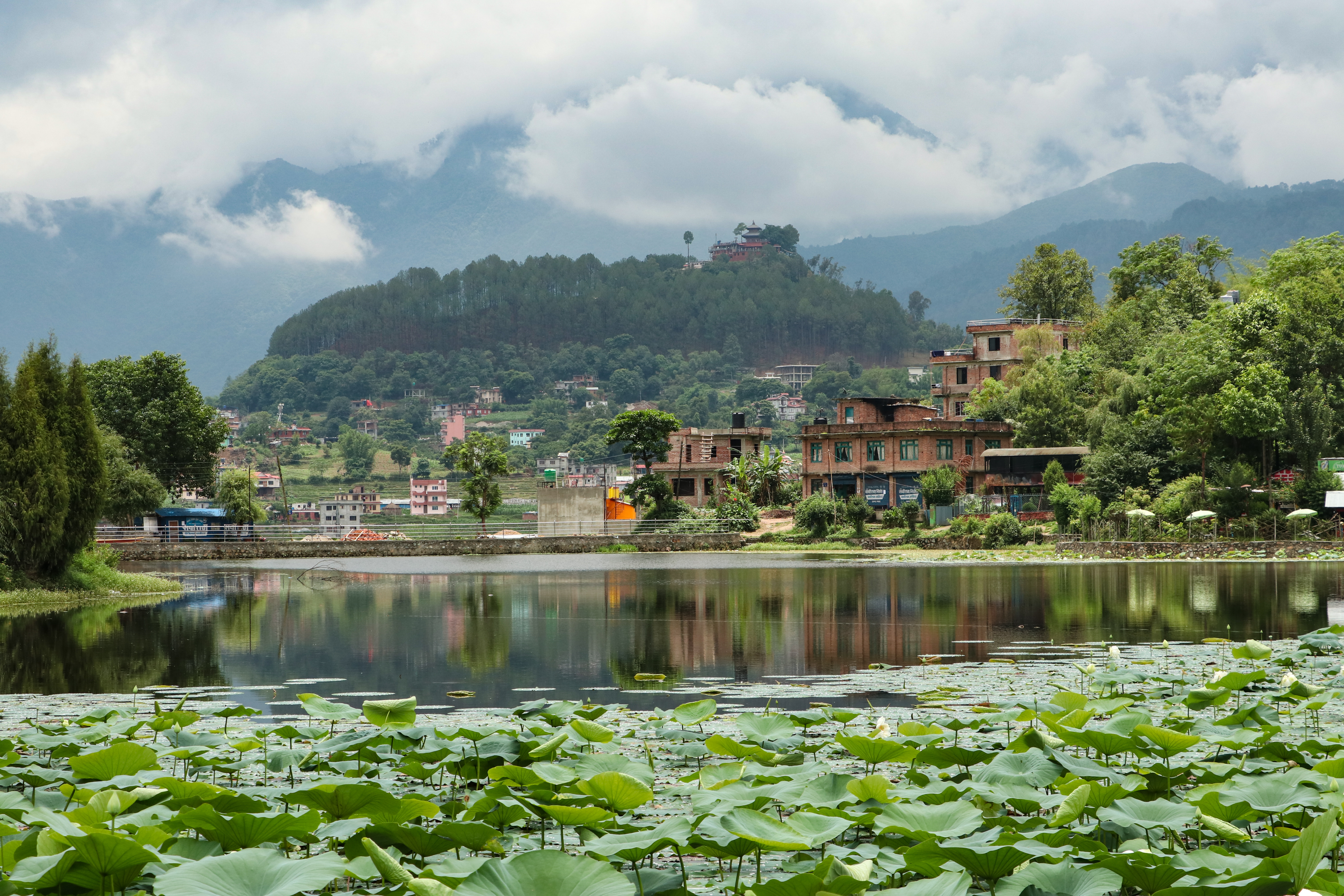 Nagdaha is a lake in the Dhapakhel Village Development Committee (VDC) of Lalitpur District and Santaneshwor Mahadev temple is located at Jharuwarashi, Lalitpur. Santaneswor Mahadev is around 2.3 km from Nagdaha.